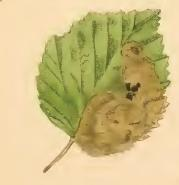 Stainton’s Natural History of the Tineina (1855–1873): Eriocrania unimaculella